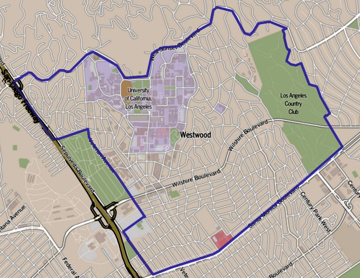 Map of Westwood, California, as delineated by the Los Angeles Times Boundary map as drawn by the Los Angeles Times on a CC-by-SA background. Note at bottom right of map on the L.A. Times website noted above says "CC-by-SA" (which gives permission to use the map). There is a link there to which explains the meaning thereof. The base map is credited to The Times spells all this out at